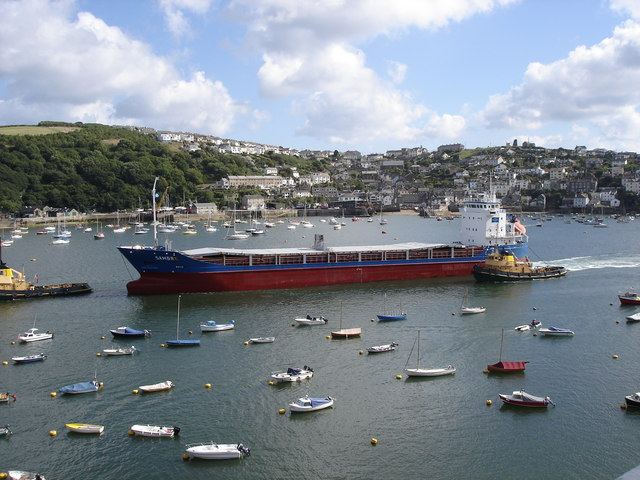 Ship in Fowey Harbour